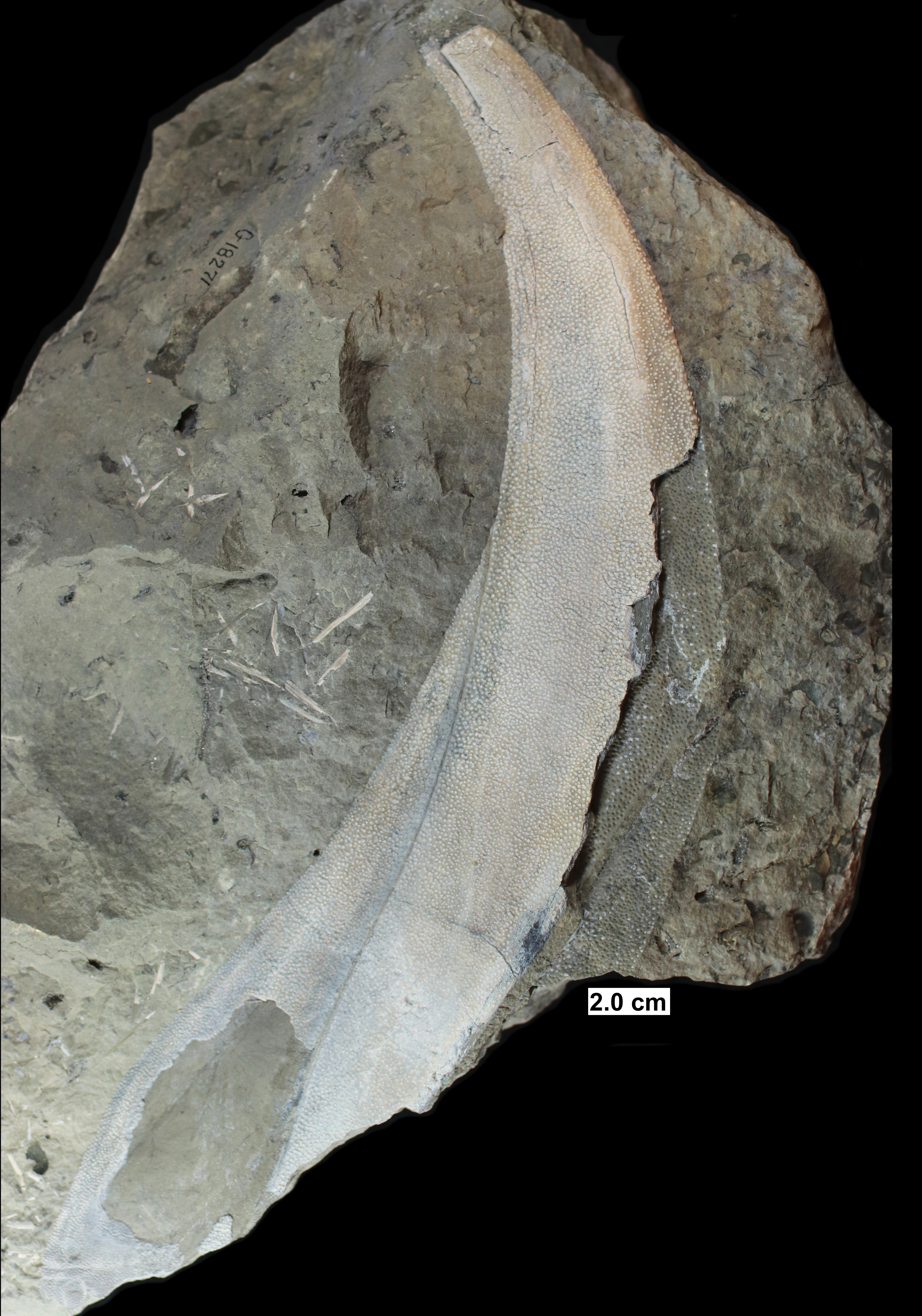 Fin spine from the ptyctodont Eczematolepis; Middle Devonian; Milwaukee Formation; Berthelet Member; Milwaukee County, Wisconsin; UWM-GM 18271; photograph originally published in K.C. Gass, J. Kluessendorf, D.G. Mikulic, and C.E. Brett, 2019. Fossils of the Milwaukee Formation: A Diverse Middle Devonian Biota from Wisconsin, USA. Siri Scientific Press, Manchester, UK.